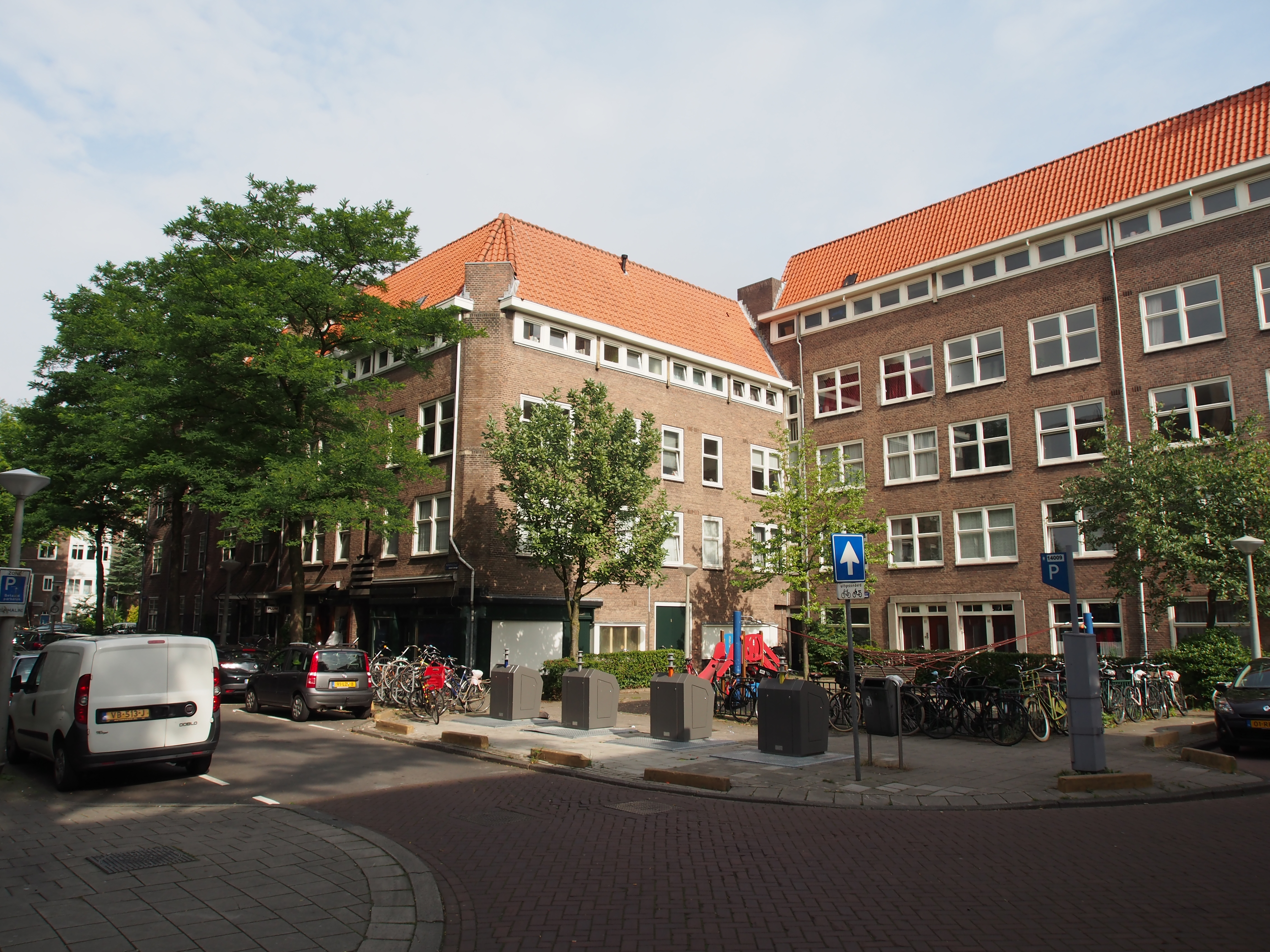 Photographed in Amsterdam.